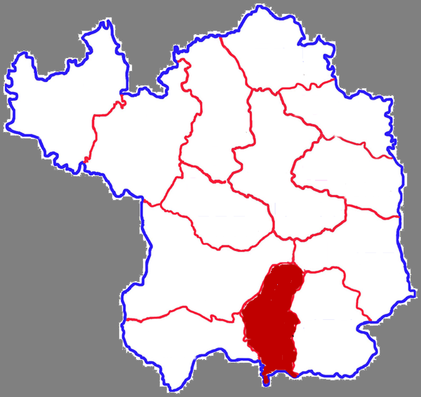 Location of Luochuan county in Yan'an city, China